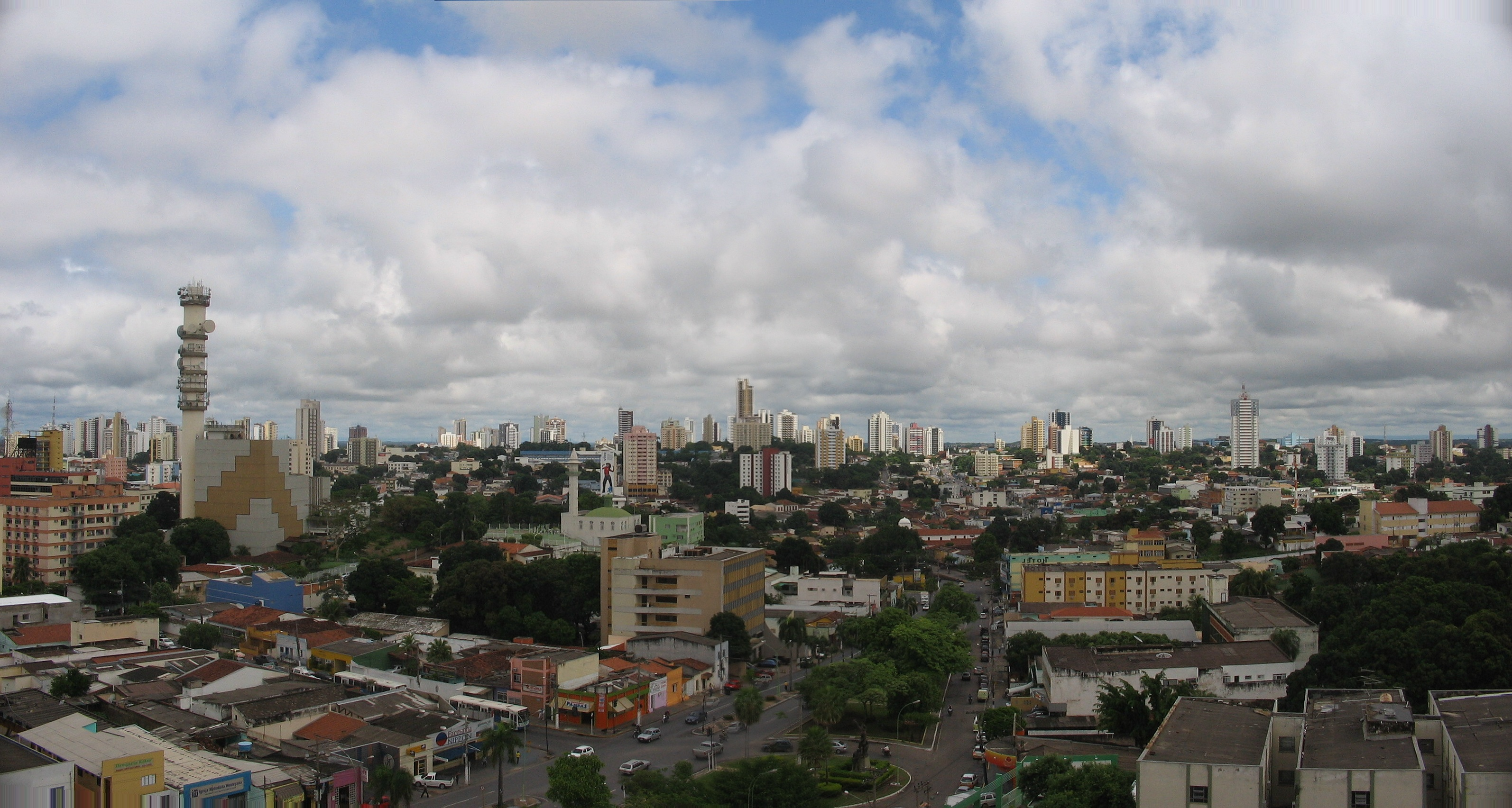 Panoramic of Cuiabá, Mato Grosso, Brazil